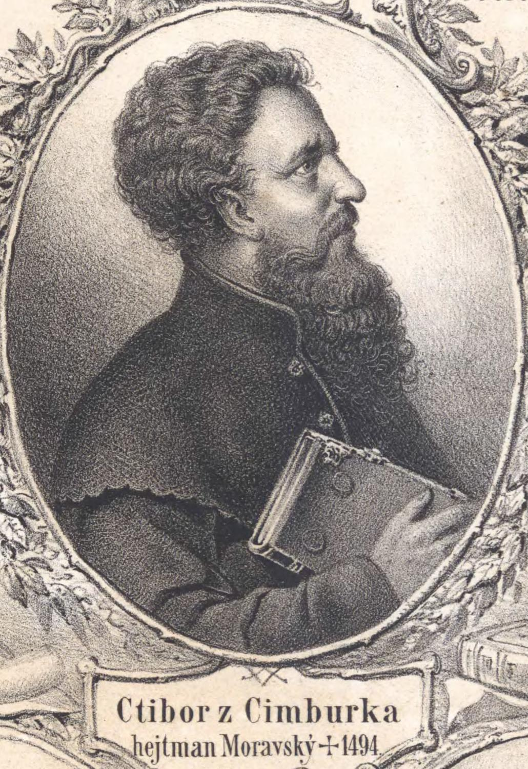 Portrait of Ctibor Tovačovský z Cimburka (1438 - 1494, also known as Ctibor Tobischau von Cimburg), Moravian nobleman and politician.